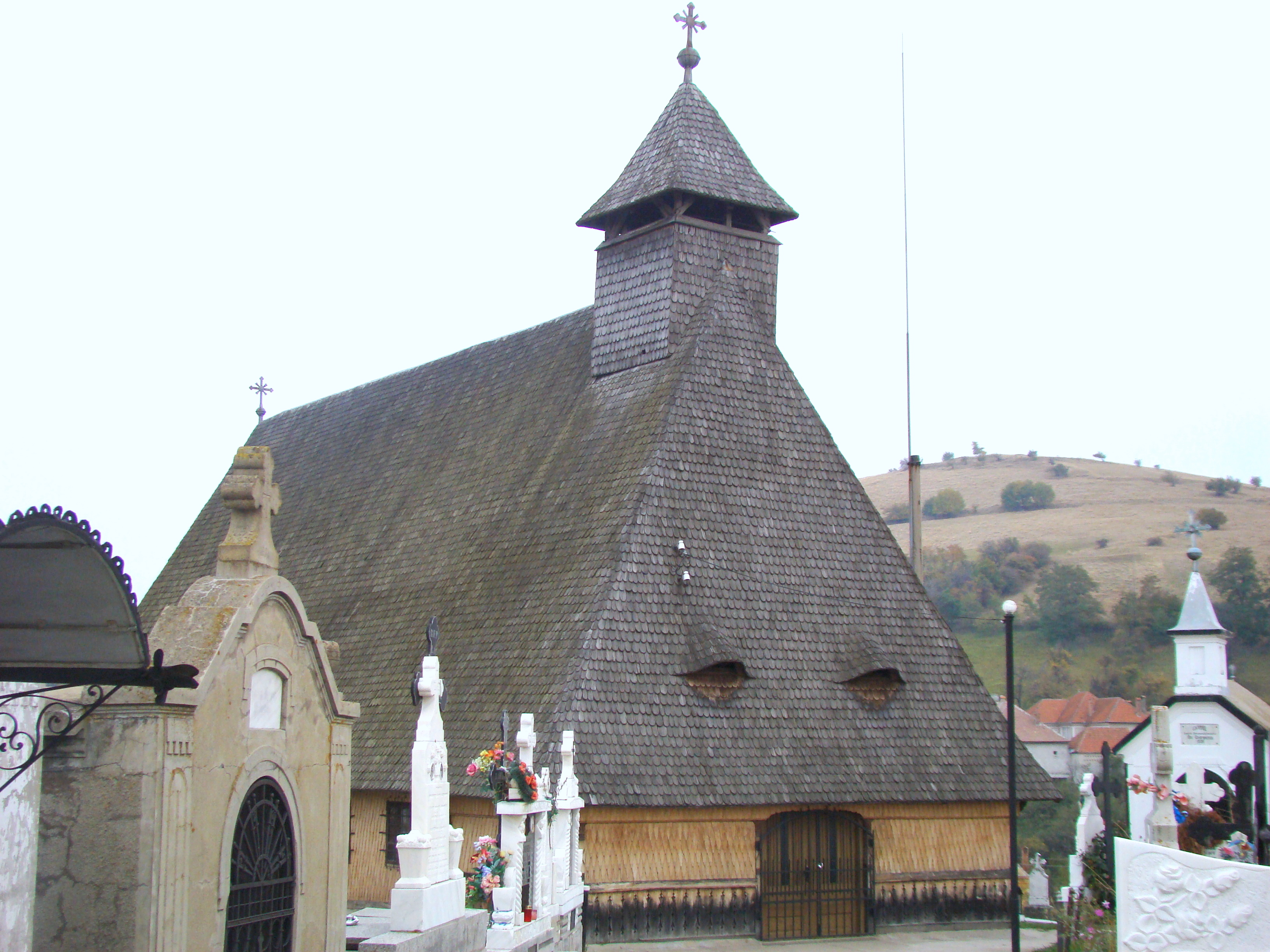 The wooden church in Poiana Sibiului, Sibiu County, Romania